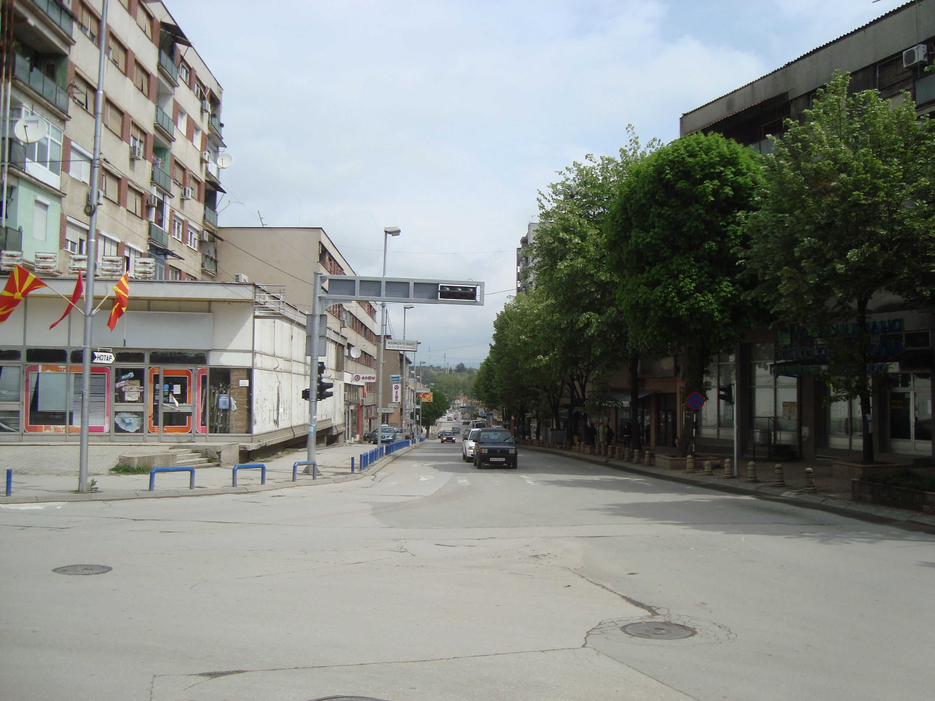 A crossroad in Kumanovo, Macedonia.